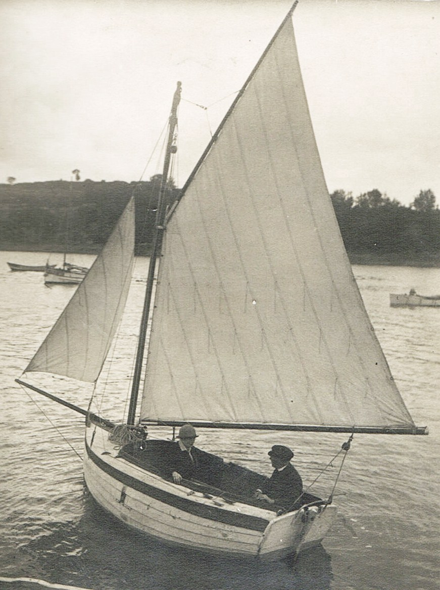 Boat, in Rance river, near Saint-Malo, Brittany, France, near 1910-1936. Anonymus photography, collection Marie-Anne Miniac.